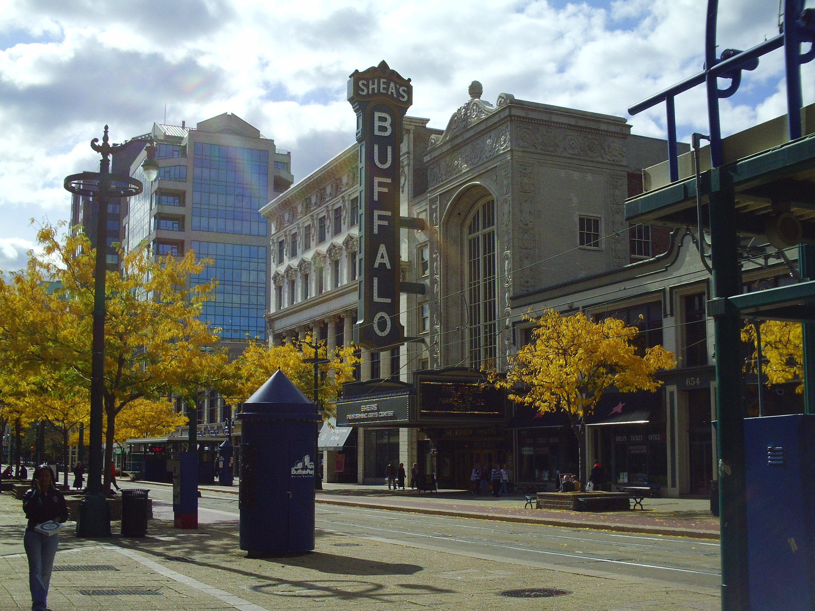 Picture of the front of Shea's Performing Arts Center, in Buffalo, NY